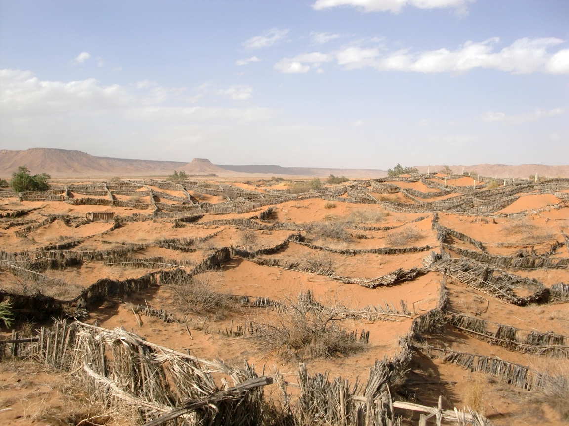 Anti desertification sand fences south of the town of Erfoud, Morocco